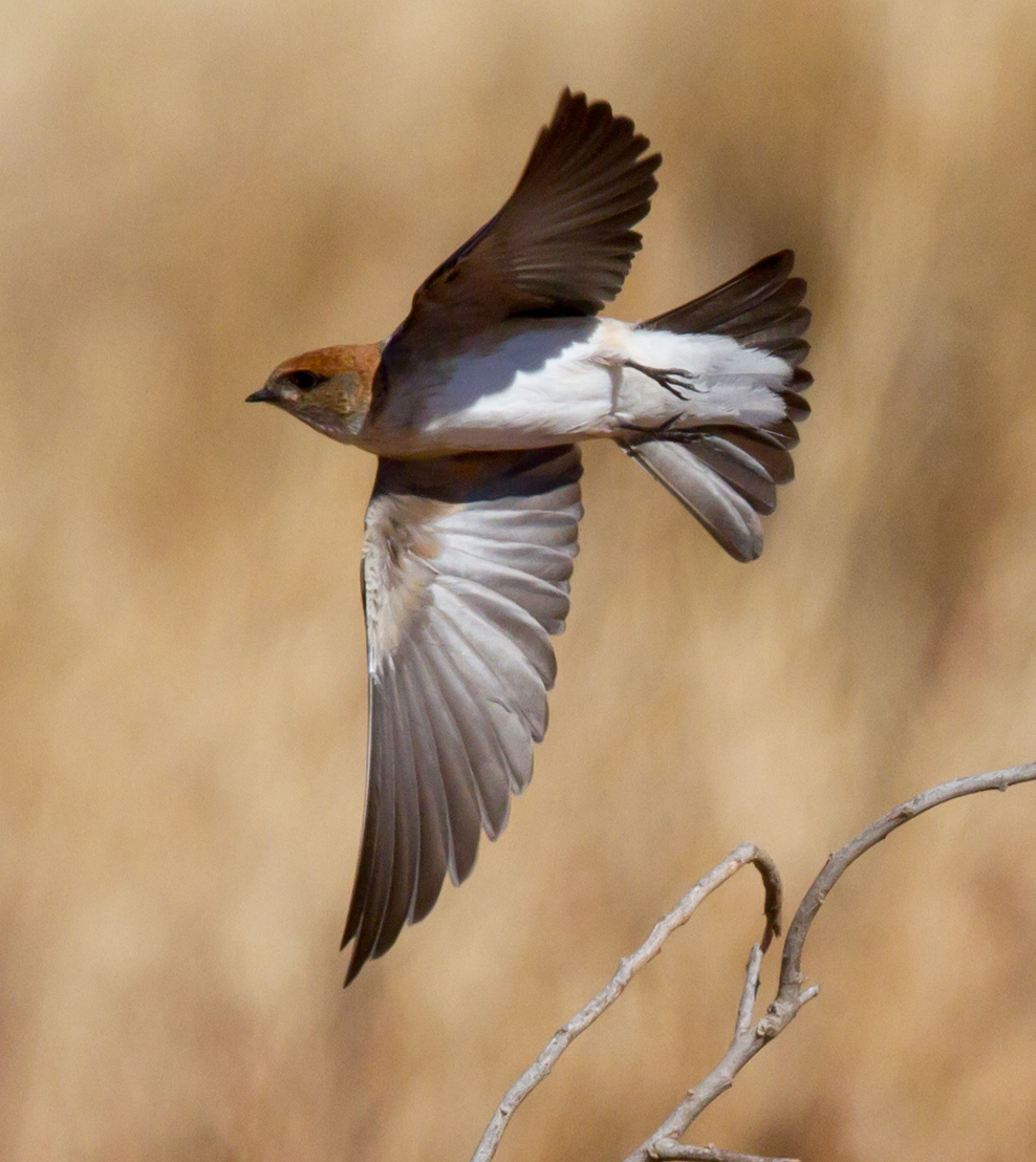 A Fairy Martin near Karratha, Pilbara, Western Australia, Australia.